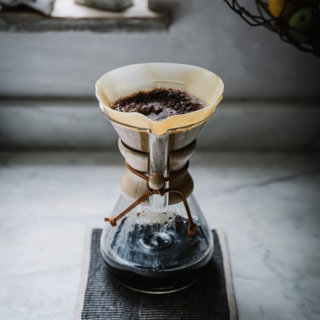 Coffee being made by chemex technique.